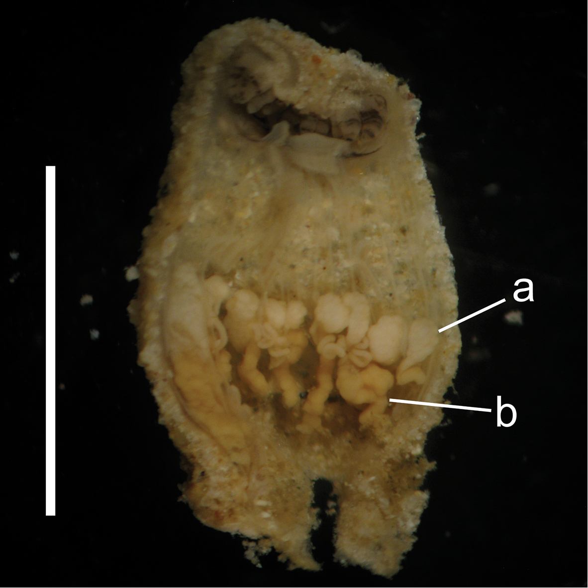 Longitudinal section of a reproductive polyp of Palythoa mizigama sp. n. Collected on Aug. 19, 2010 at Mizugama, Okinawa Island, Japan. a spermaries b ovaries. Scale bar=0.5 cm. Irei Y, Sinniger F, Reimer JD (2015) Descriptions of two azooxanthellate Palythoa species (Subclass Hexacorallia, Order Zoantharia) from the Ryukyu Archipelago, southern Japan. ZooKeys 478: 1-26.